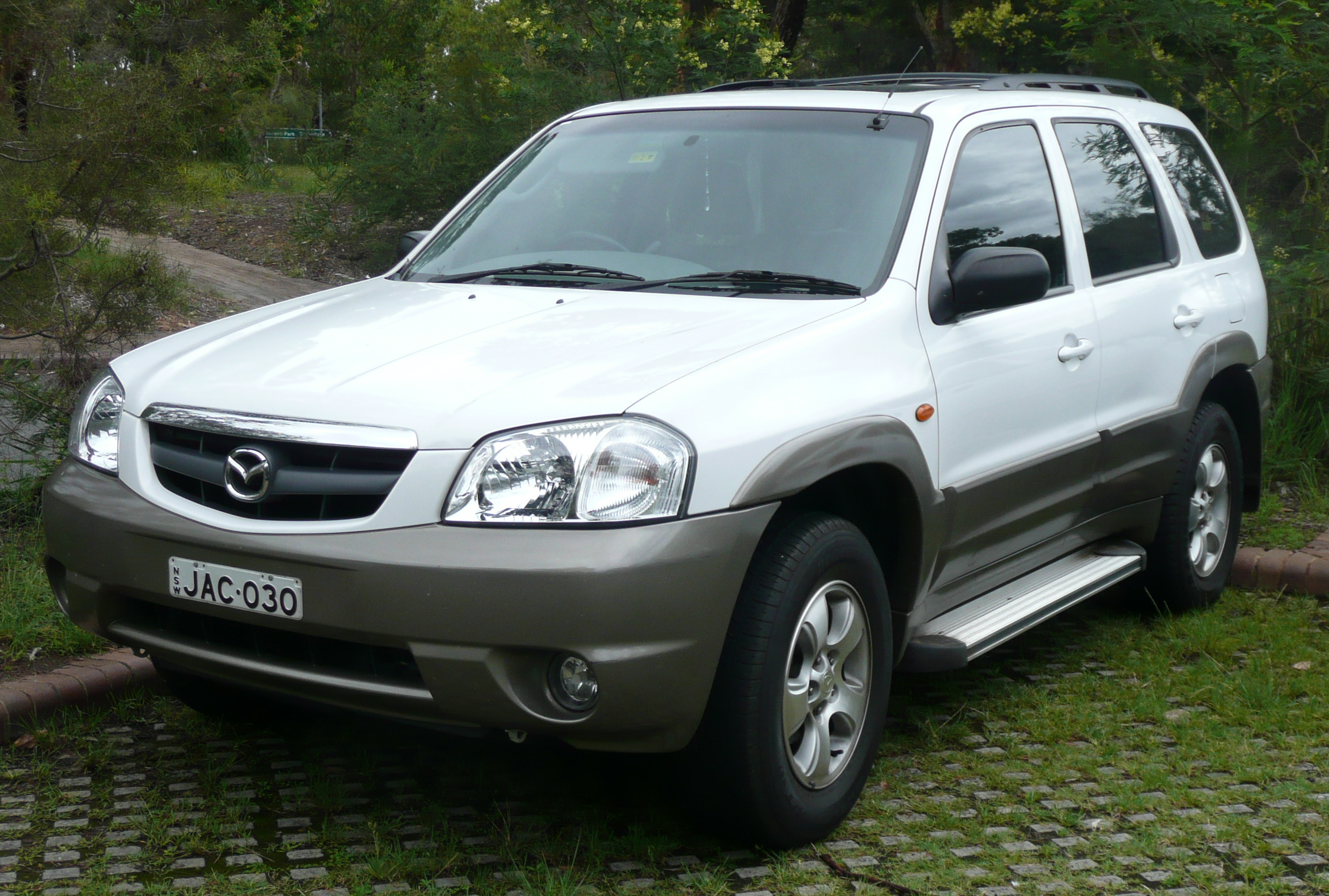 2001–2004 Mazda Tribute Classic V6 wagon. Photographed in Audley, New South Wales, Australia.